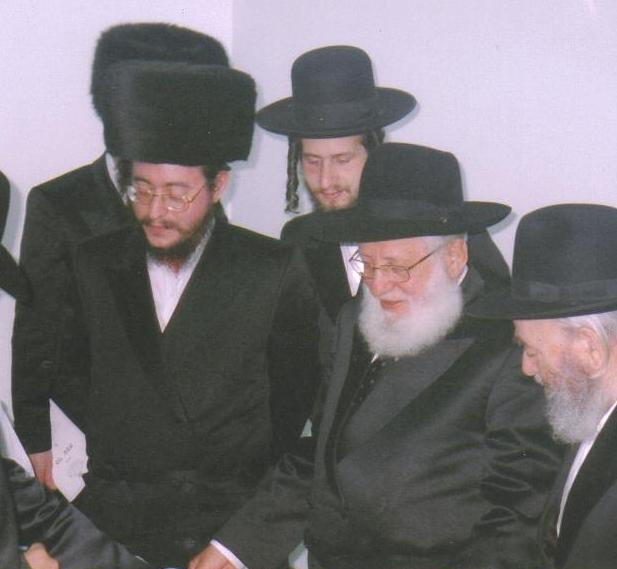 Rabbi Nosson Nochum Englard shlita, Rov of Radziner Chassidim in Yerushalayim